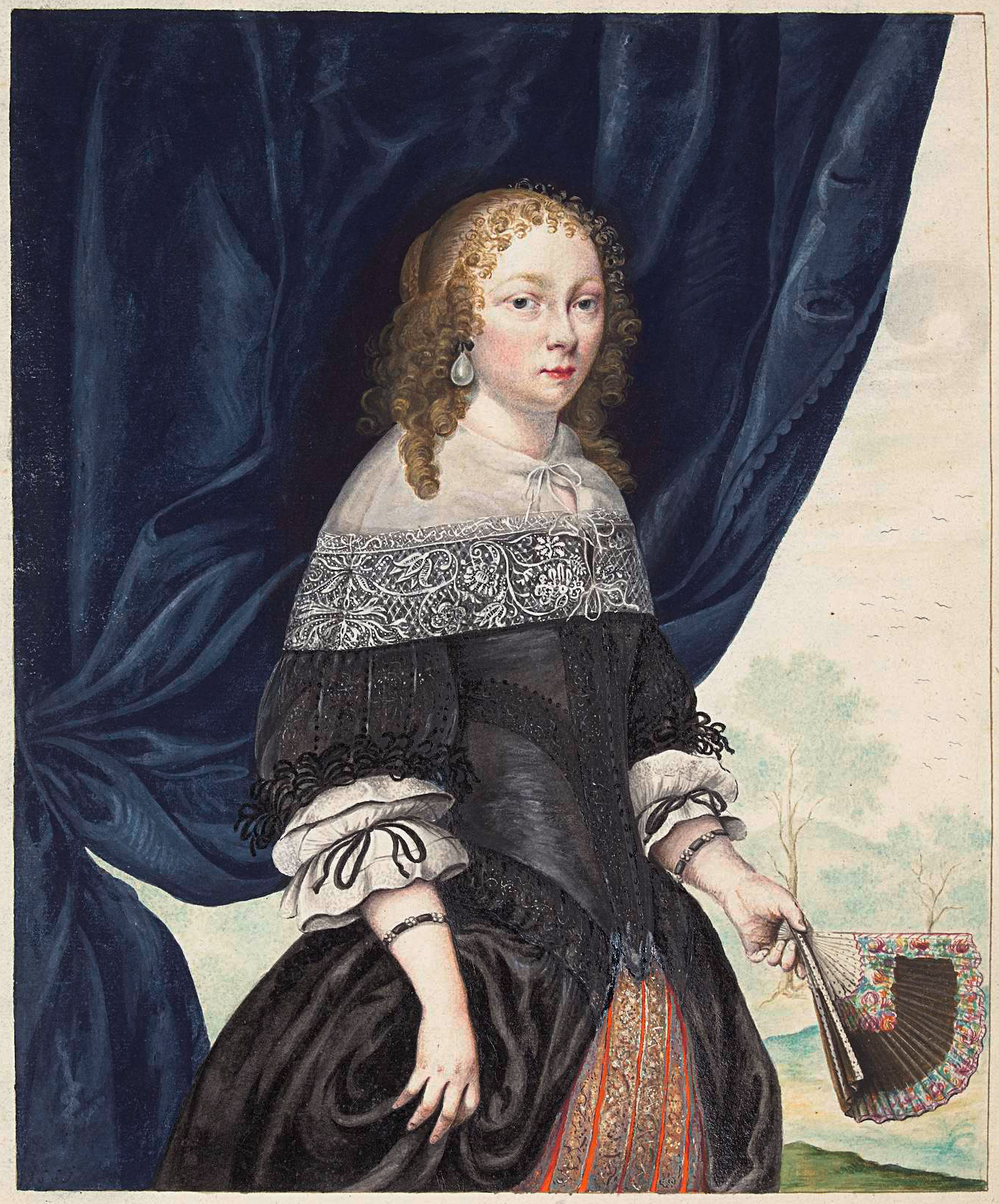 Gesina ter Borch Self-portrait paint-brush in black and colours, costume albumen washed, under-dress heightened with gold and silver on paper 24.3 x 36 cm 1661 inscribed with poem by Joost Hermans Roldanus